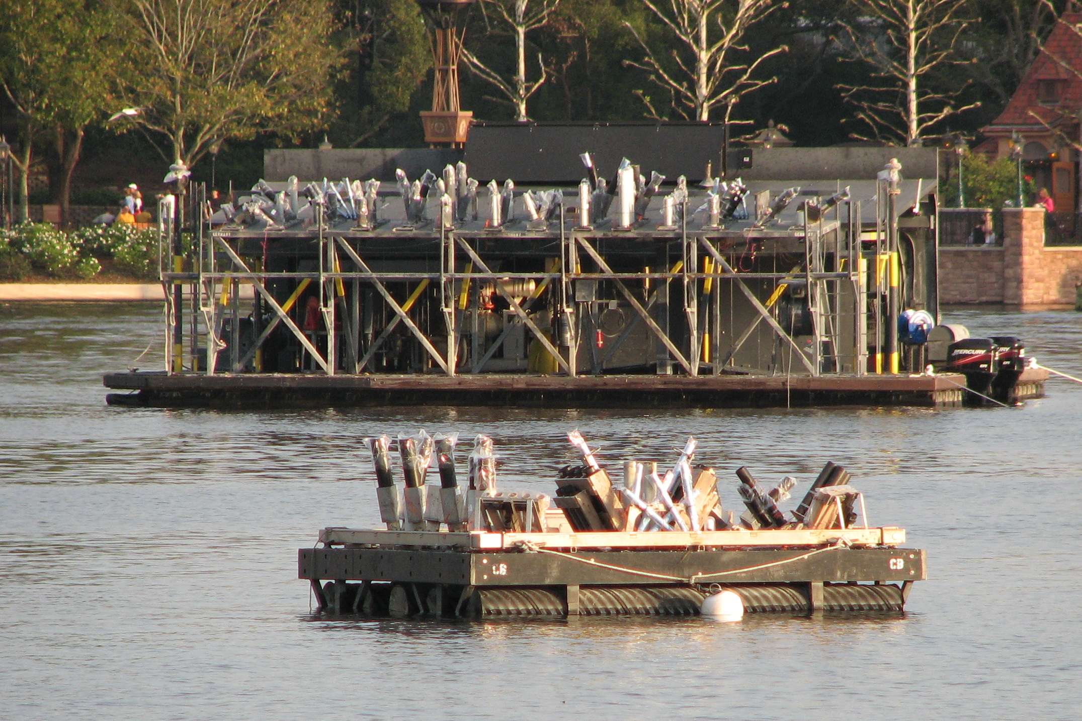 Fireworks barges used for the IllumiNations: Reflections of Earth show at Epcot.